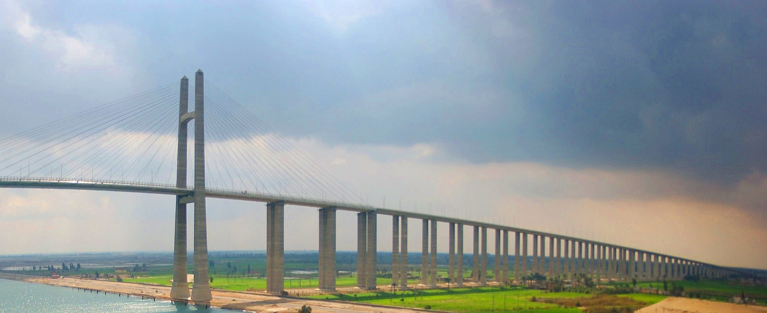 An image of the Suez canal bridge.